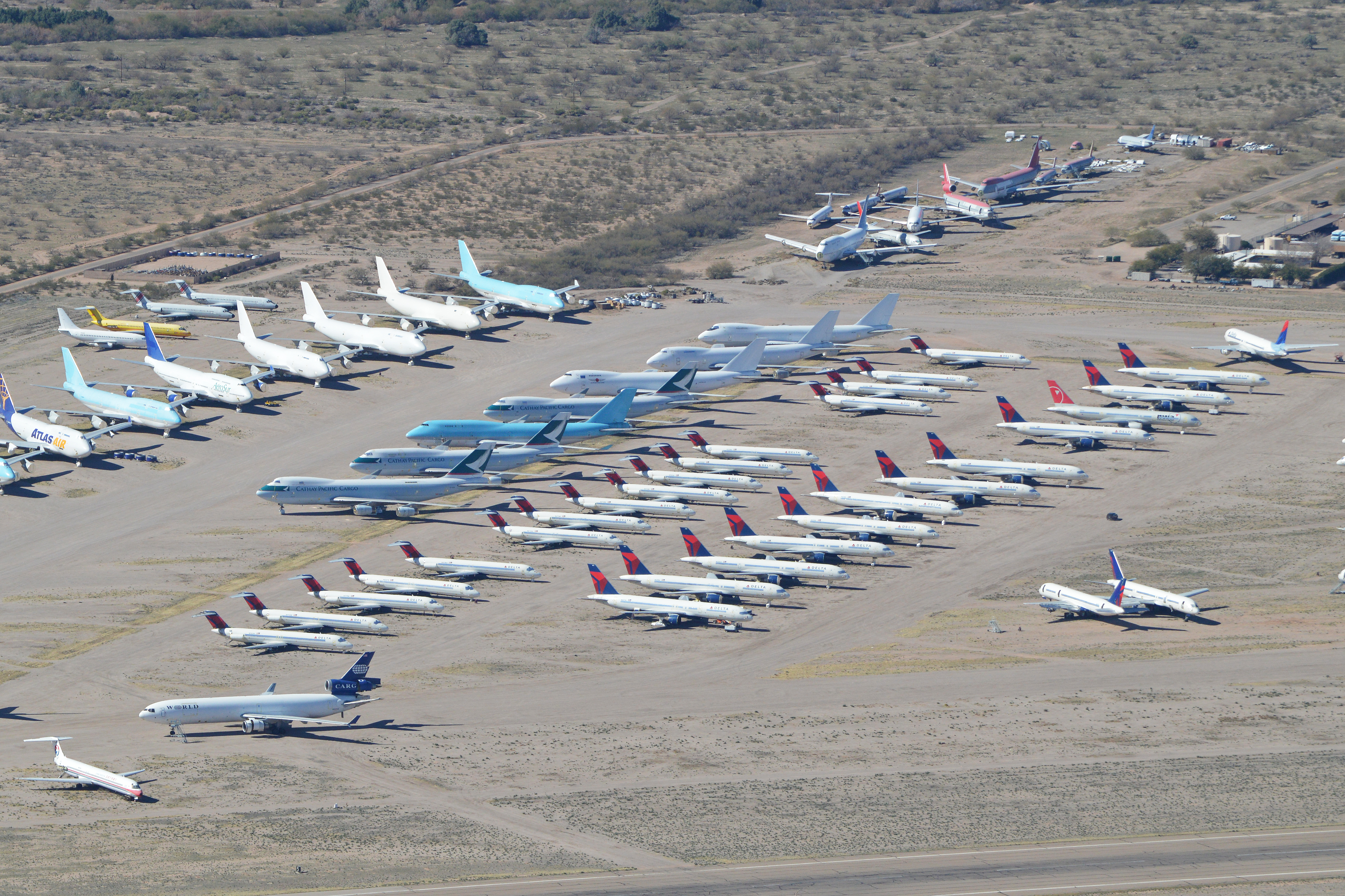 I've included this shot as it covers a few aircraft I haven't picked up on other shots. The main focus is the two long rows of ex-Delta aircraft, the 747's will be covered in detail elsewhere. Right hand row, top to bottom:- 757-251 'N527US' c/n 23842, l/n 136, 757-232 'N656DL' c/n 24396, l/n 266, 757-251 'N516US' (NWA c/s) c/n 23204, l/n 104, 757-232 'N634DL' c/n 23615, l/n 158, 757-232 'N677DL' c/n 25982, l/n 456, 757-232 'N653DL' c/n 24393, l/n 261, 757-232 'N628DL' c/n 22918, l/n 133, 757-232 'N625DL' c/n 22915, l/n 126, 757-232 'N626DL' c/n 22916, l/n 128, 757-251 'N528US' c/n 23843, l/n 137, 757-232 'N631DL' c/n 23612, l/n 138 and 757-232 'N657DL' c/n 24419, l/n 286. The left hand row consists of sixteen Douglas DC9-51s as follows (top to bottom):- 'N778NC' c/n 48100, l/n 927, 'N776NC' c/n 47786, l/n 905, 'N761NC' c/n 47709, l/n 814, 'N781NC' c/n 48121, l/n 935, 'N769NC' c/n 47757, l/n 877, 'N783NC' c/n 48108, l/n 937, 'N765NC' c/n 47718, l/n 834, 'N772NC' c/n 47774, l/n 884, 'N670MC' c/n 47659, l/n 807, 'N677MC' c/n 47756, l/n 873, 'N676MC' c/n 47652, l/n 798, 'N401EA' c/n 47682, l/n 788, 'N600TR' c/n 47783, l/n 899, 'N777NC' c/n 47787, l/n 912, 'N774NC' c/n 47776, l/n 889 and 'N762NC' c/n 47710, l/n 818. To the very left, behind the 747s is a small row of four aircraft:- DC9-31 'N908AX' c/n 47008, l/n 98, DC9-31 'N941AX' c/n 47419, l/n 602, DC9-32 'N982AX' c/n 47317, l/n 385 and 737-242C 'N24089' c/n 20455, l/n 254. Finally, in the bottom left corner are:- McDD MD11F 'N383WA' c/n 48412, l/n 454 and McDD MD82 'N513HC' in the colours of China Eastern (previously B-2129) c/n 49513, l/n 1568. Pinal Air Park, Marana. Arizona, USA. 09-2-2014